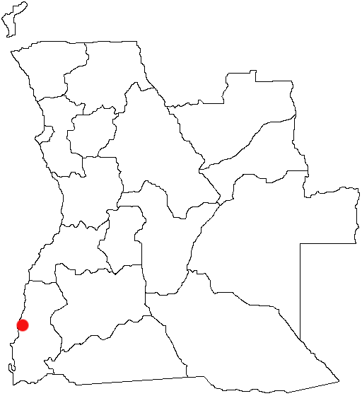 Namibe, Angola Location Map; created with the GIMP. Made by User:Acntx.